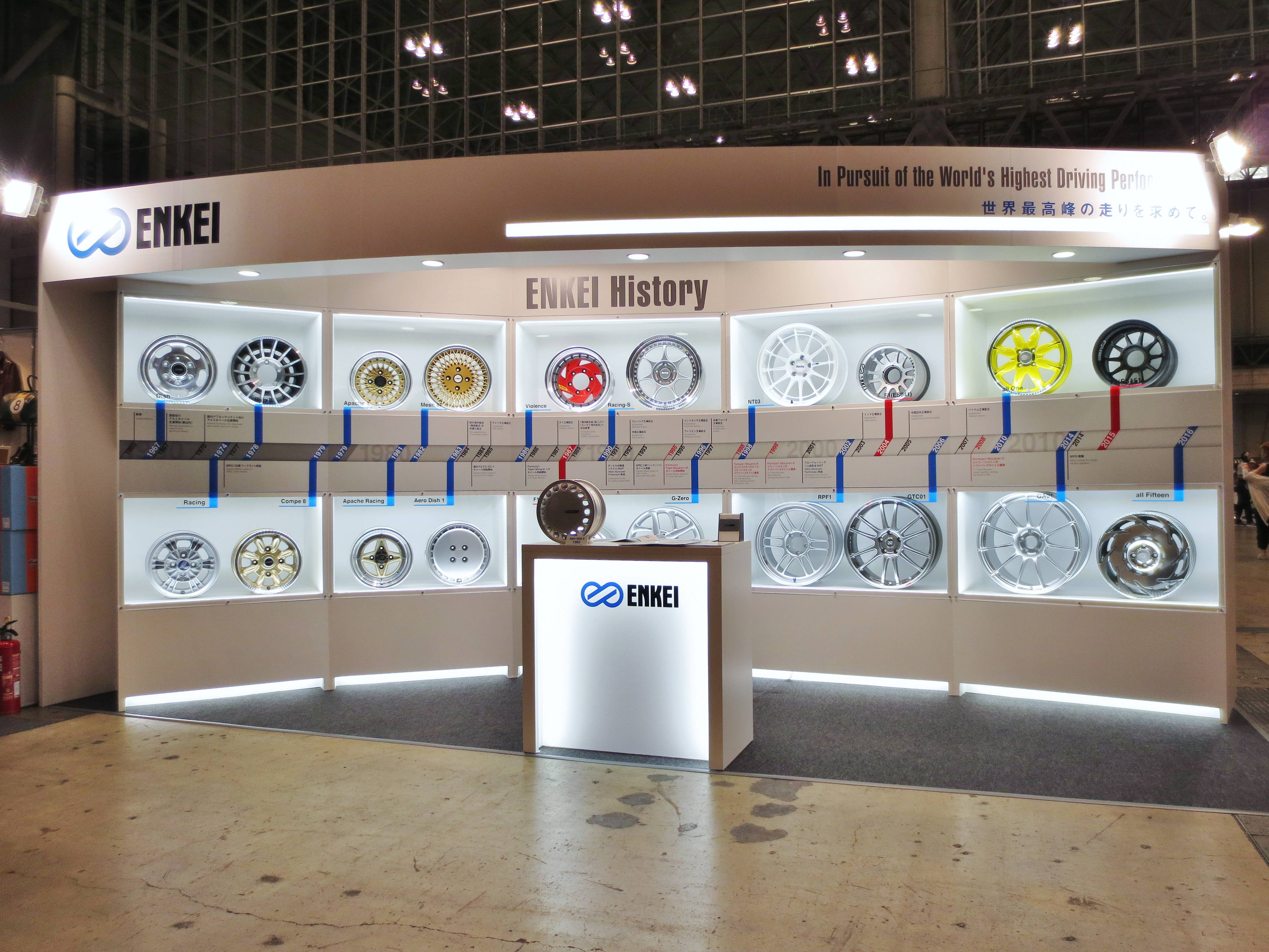 Automobile Council 2016 Enkei booth.